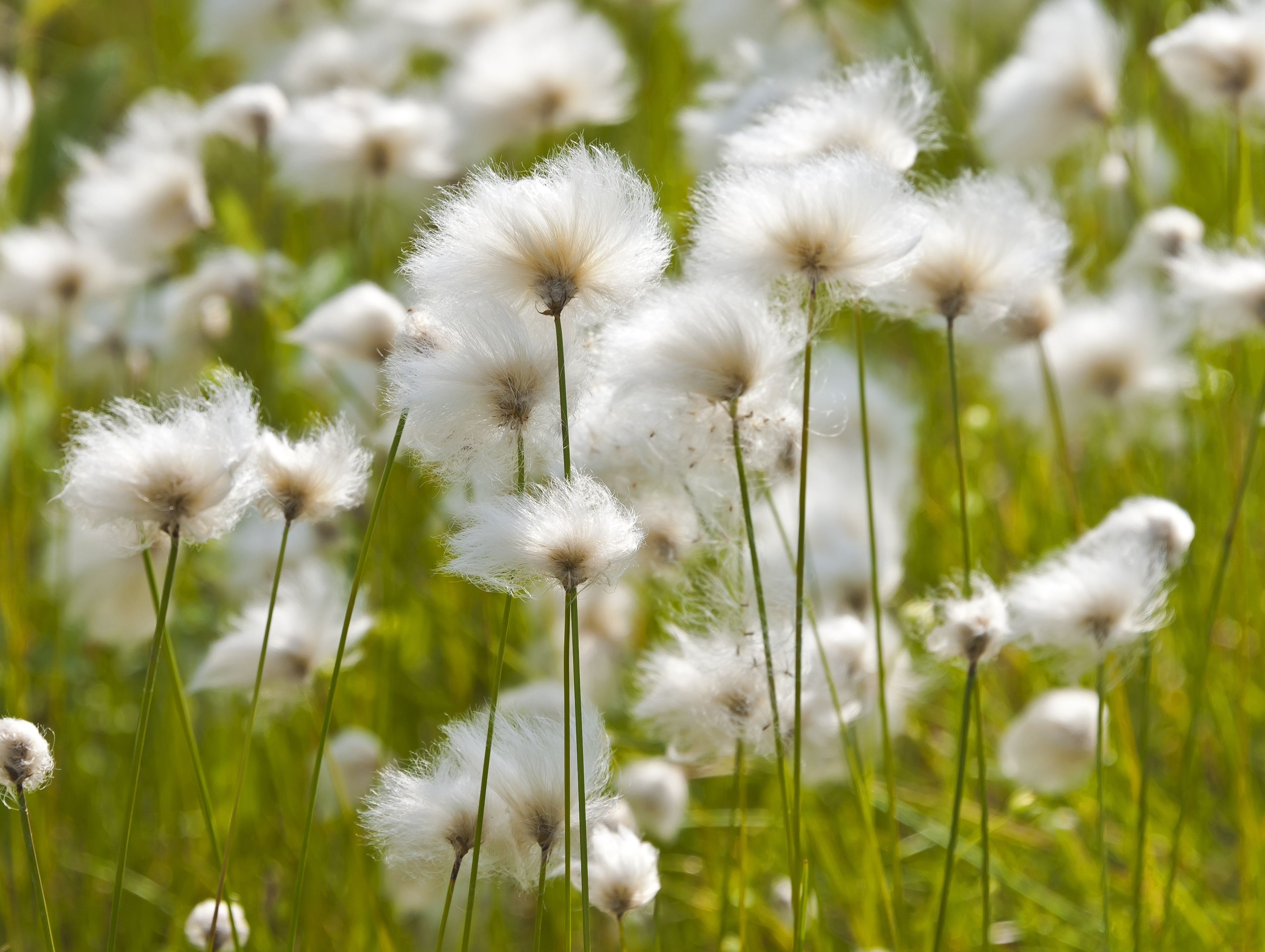 Arctic cottongrass growing by the side of the Dempster Highway south of Inuvik, NT, Canada